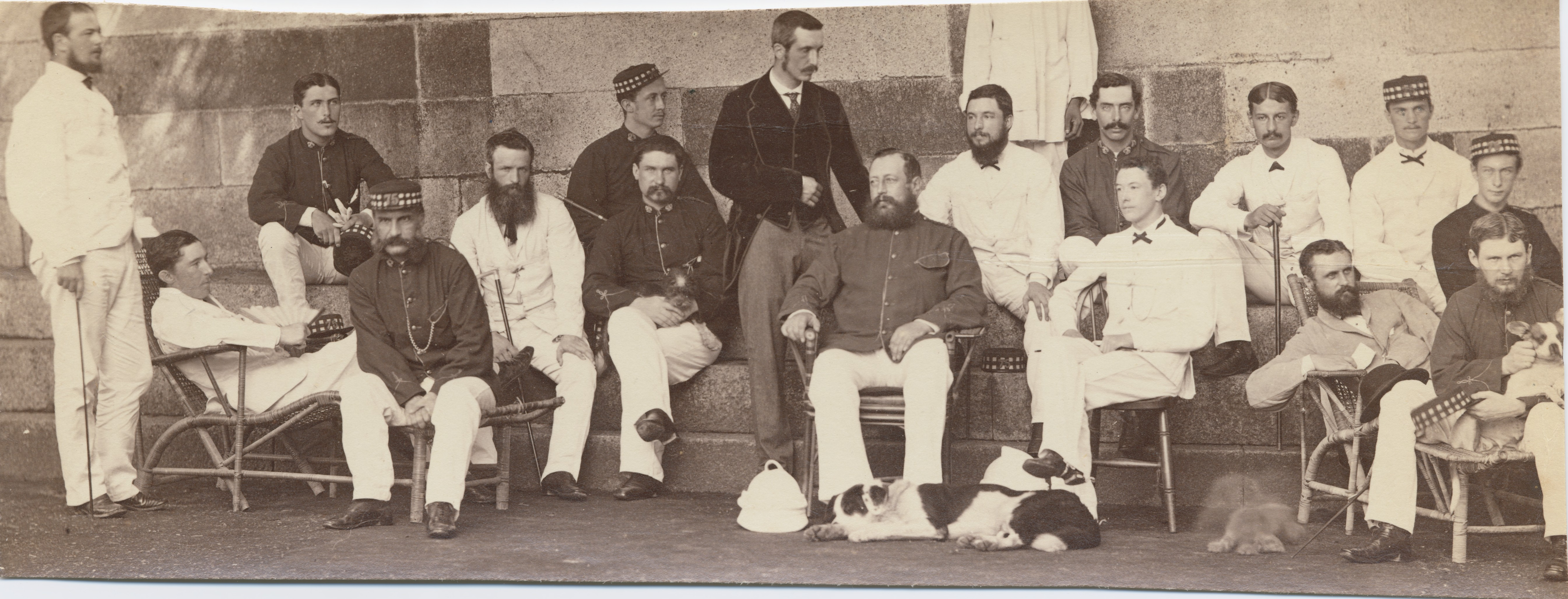 Officers of the 75th (Highland) Regiment of Foot in Hong Kong in 1869. Original sepia photograph of 17 officers, some in white suits, seated on chairs, on steps, or standing, with three dogs (two on the ground and one being held), and one servant at the back whose head has been trimmed off the photograph.